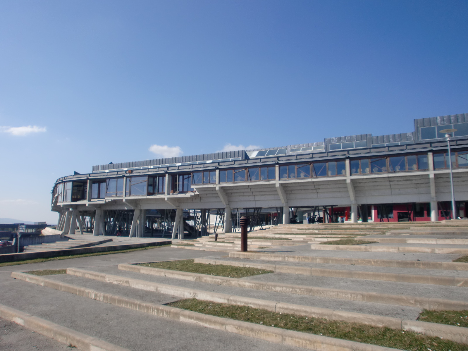 Miralles building. University of VigoGalego: Edificio Miralles. Universidade de Vigo